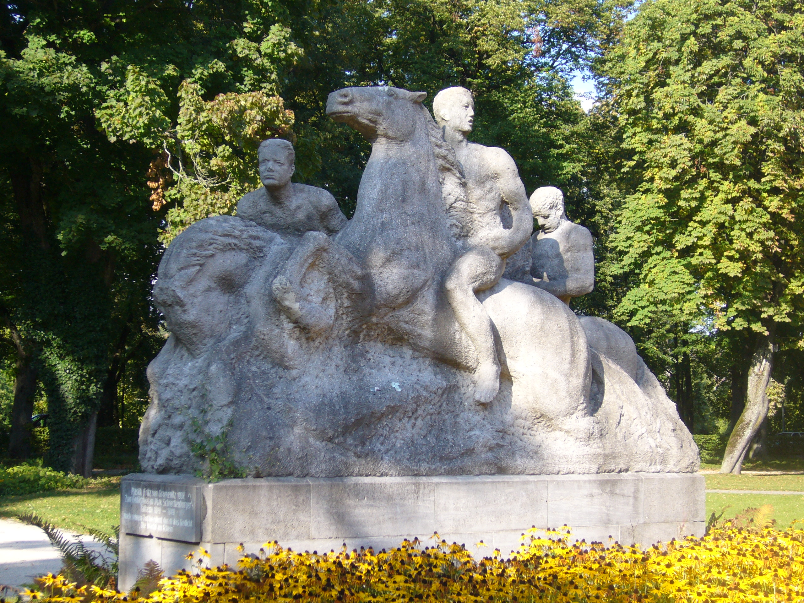 Max Schneckenburger memorial in Tuttlingen, Germany